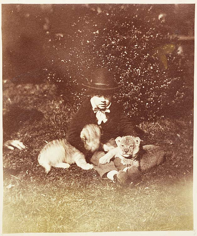 Ffotograffydd/Photographer: John Dillwyn Llewelyn (1810-1882) Nodyn/Note: Other title : ‘Lion Cubs three weeks old at Clifton Zoological Gardens’ Dyddiad/Date: 16 March 1854 Cyfrwng/Medium: Print taken from a collodion negative. Cyfeiriad/Reference: dil00057 (pb08732/30) Rhif cofnod / Record no.: 3590003 Rhagor o wybodaeth am Ffotograffiaeth Gynnar Abertawe yn Llyfrgell Genedlaethol Cymru More information about Early Swansea Photography at the National Library of Wales